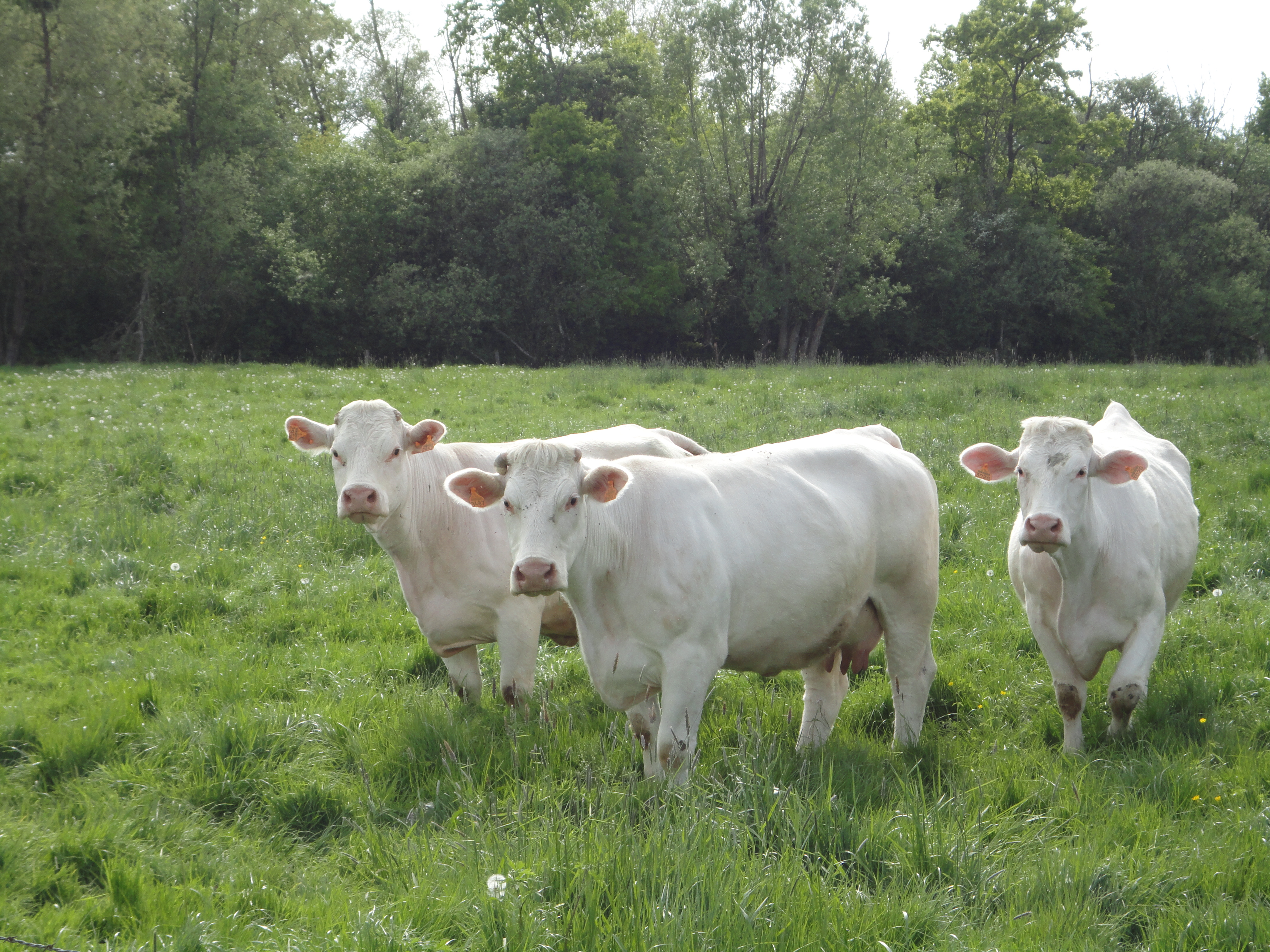 Photography of charolais cattle in France.